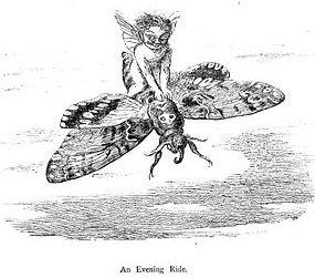 Princess Nobody : a tale of fairy land, page 6, by Andrew Lang illustrated by Richard Doyle plates printed by Edmund Evans